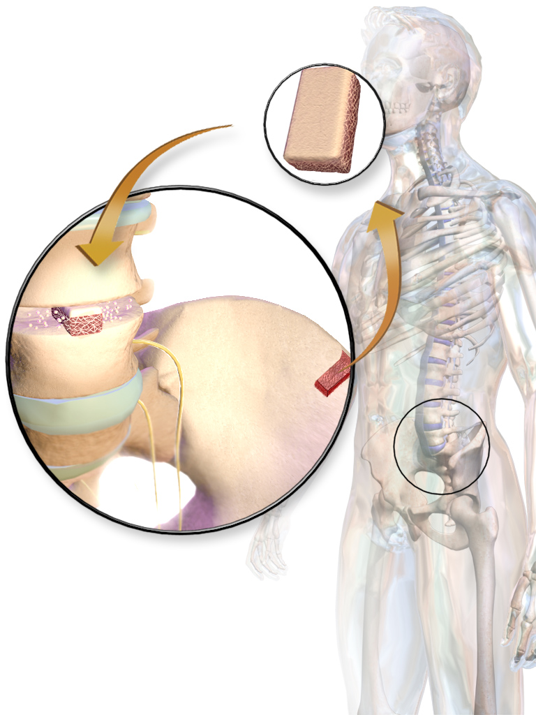 Bone Graft. See a related animation of this medical topic.